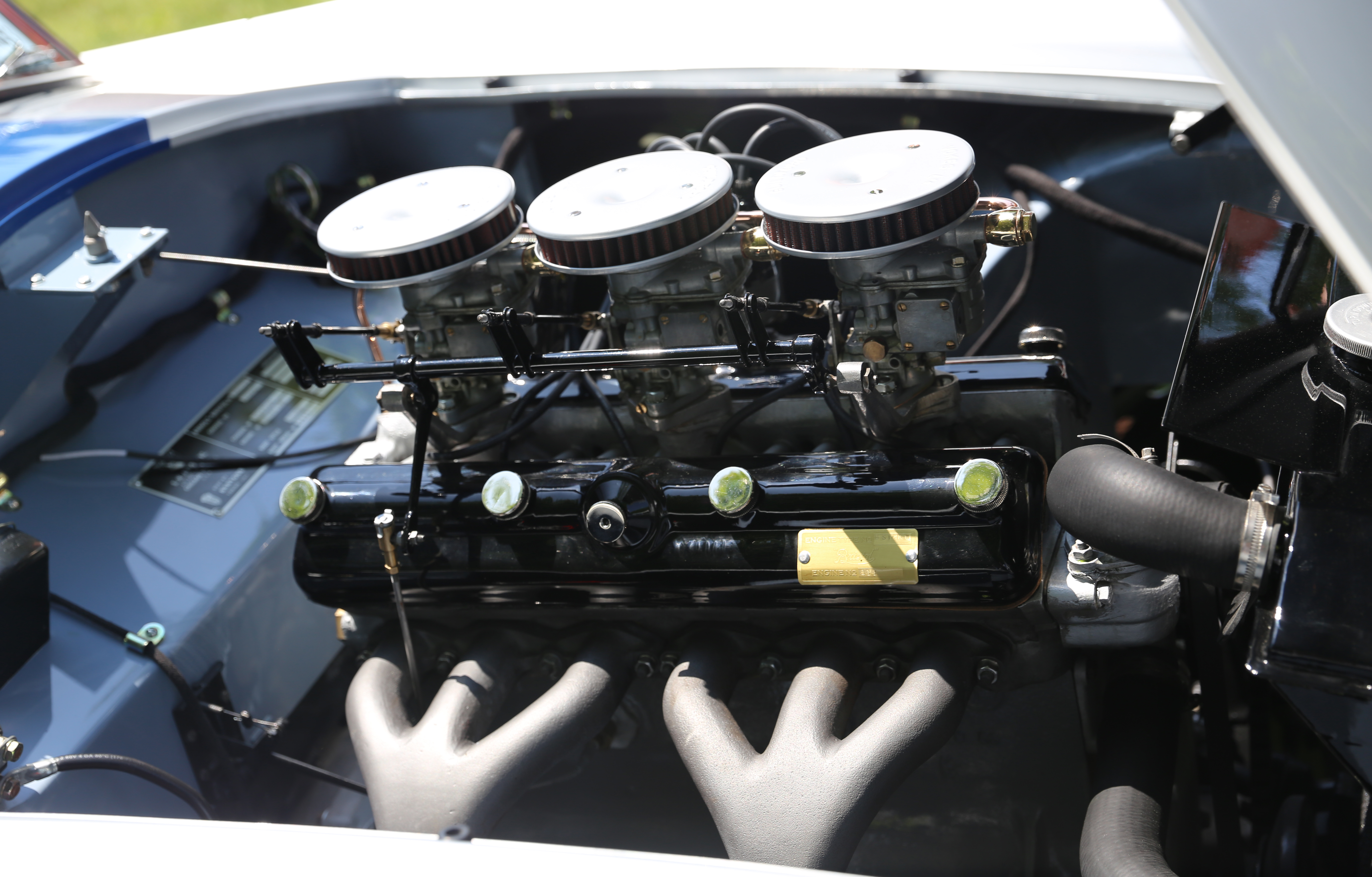 Bristol engine of a 1954 Arnolt-Bristol "Bolide" at the 2013 Greenwich Concours d'Elegance.